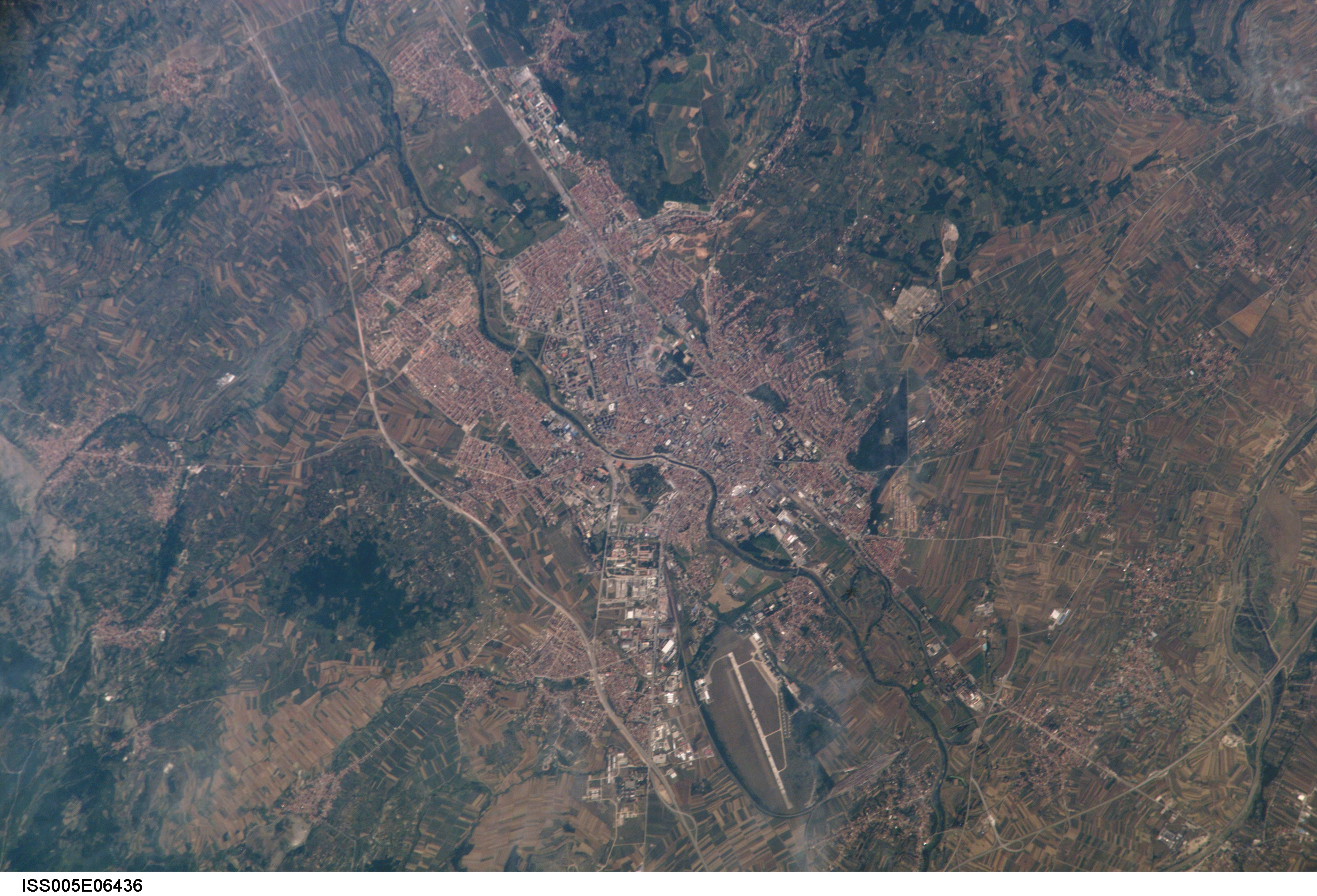 Astronaut imagery of Grad Nis; Image File: ISS005-E-6436